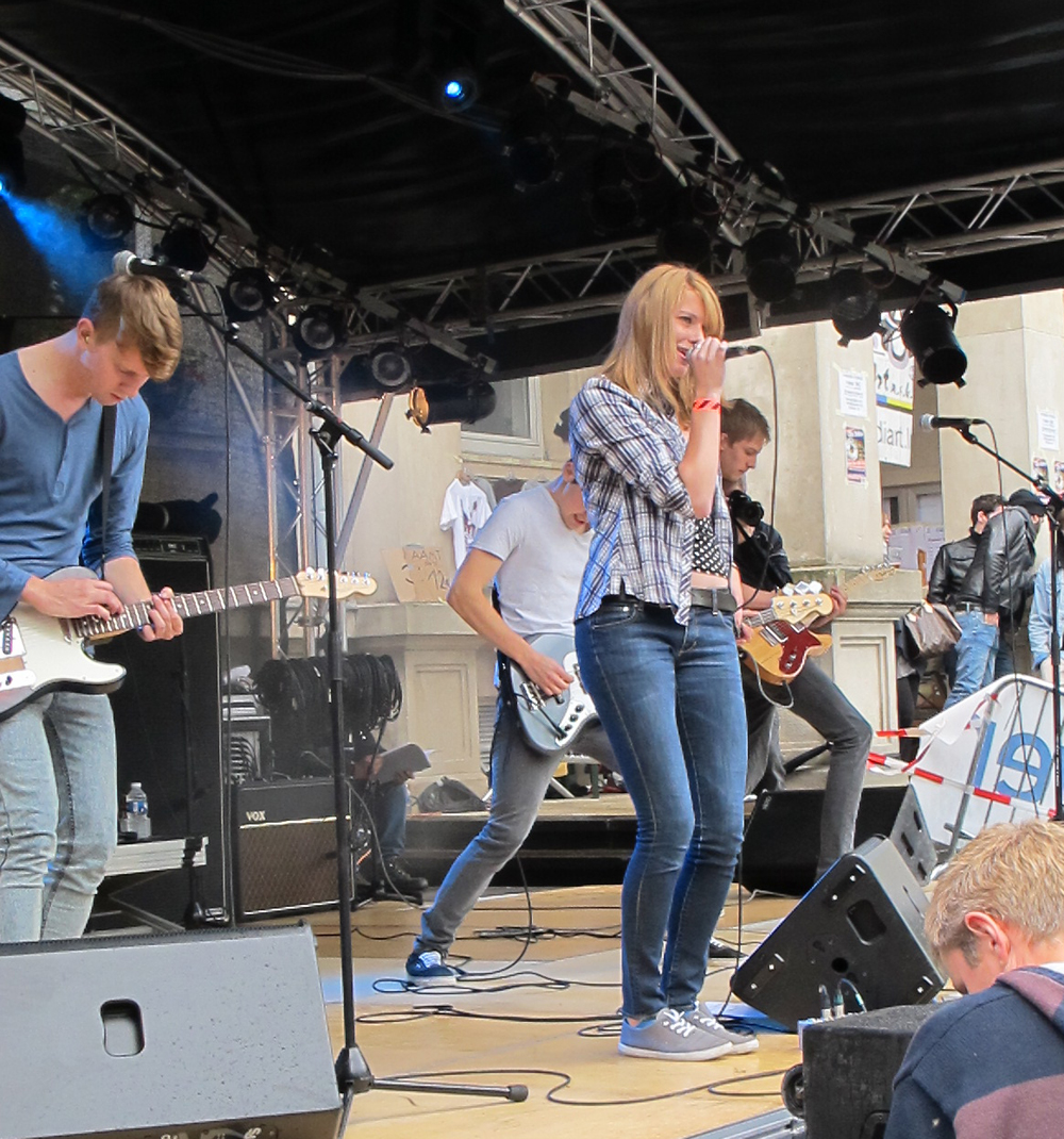 "Angel at my Table" at the "Fête de la Musique" in Dudelange, Luxembourg